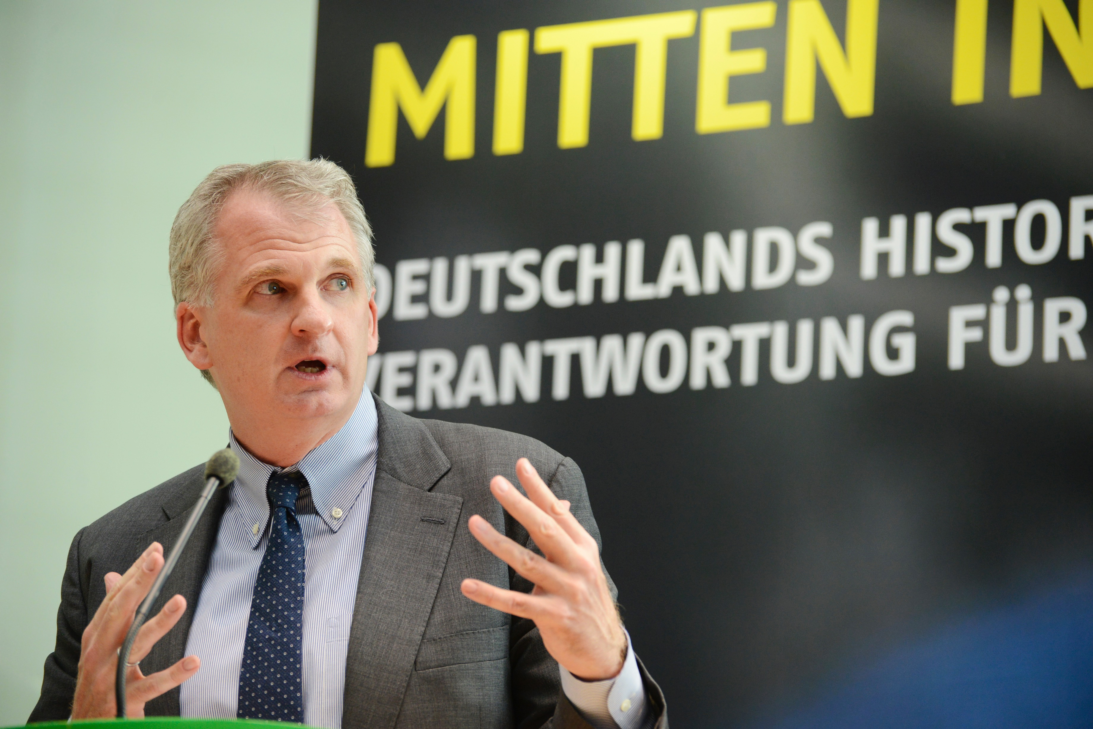 Timothy Snyder, historian and author, teaching at Yale university